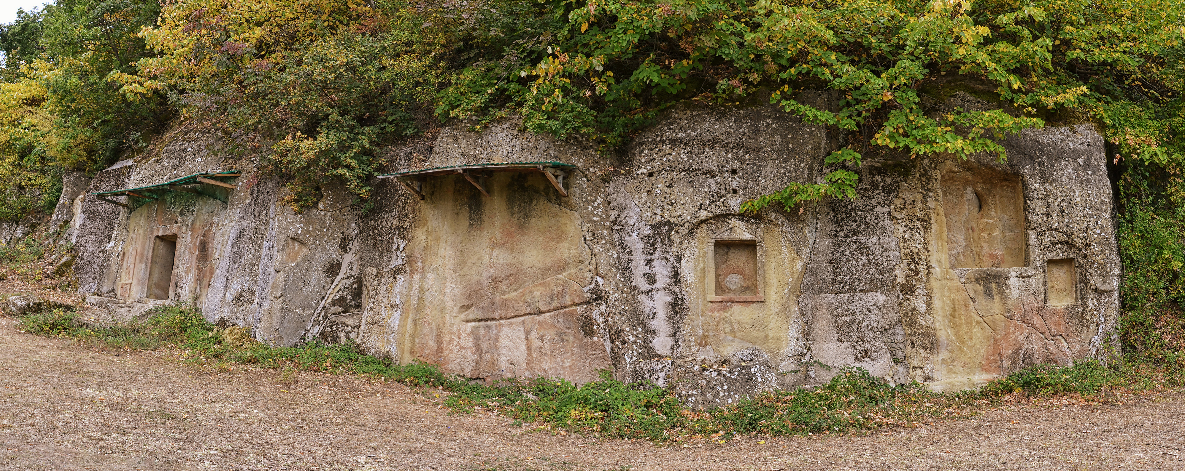 The monumental antique tombs of Selca e Poshtme in Albania – Tomb nr 4 and the wall for remembering the deceased